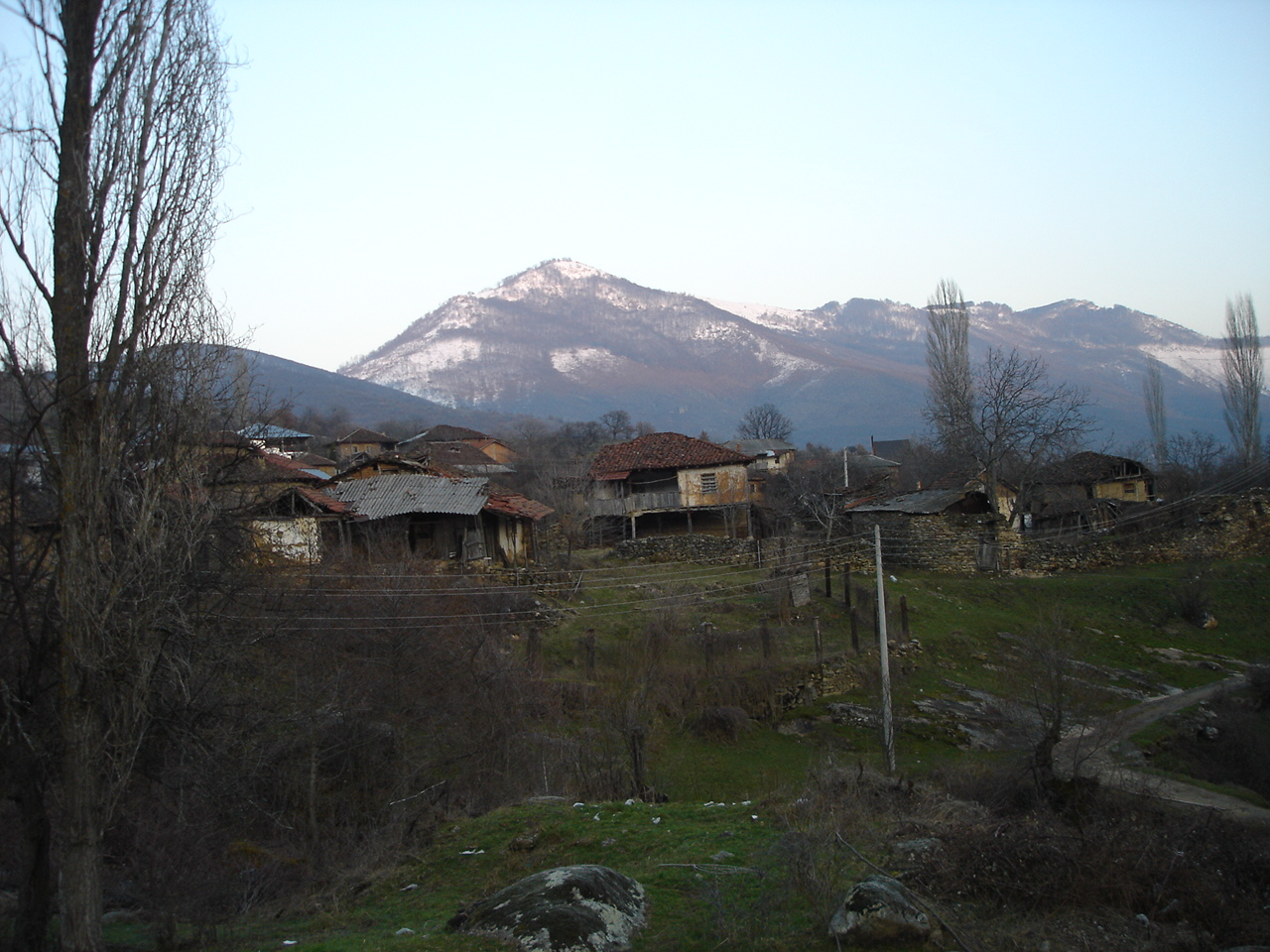 village of Strovija in Dolneni Municipality, near Prilep, Macedonia